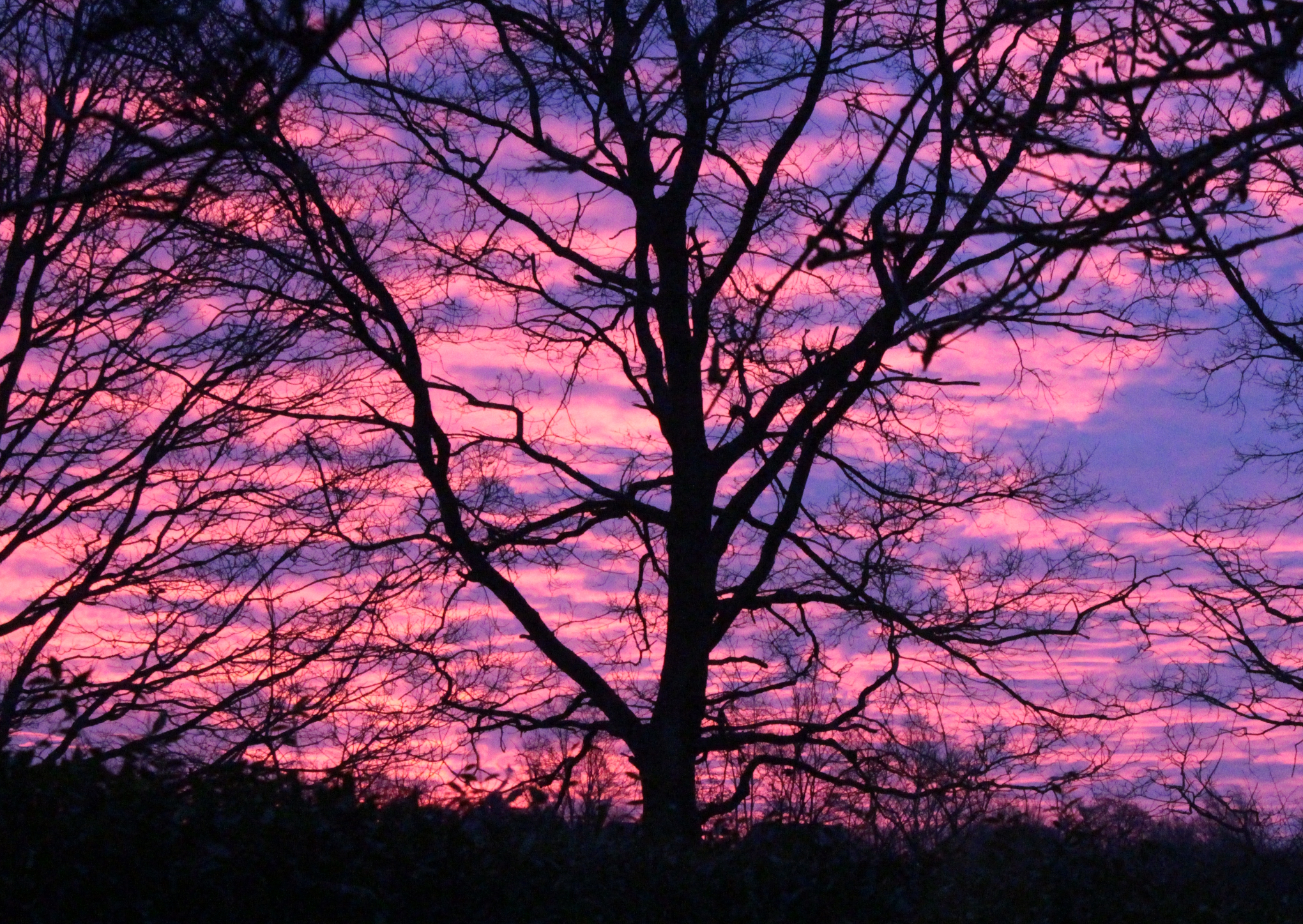 The sky on New Year's morning about half an hour before sunrise (8:32 AM, local time) looking south-east at Malling, Denmark.